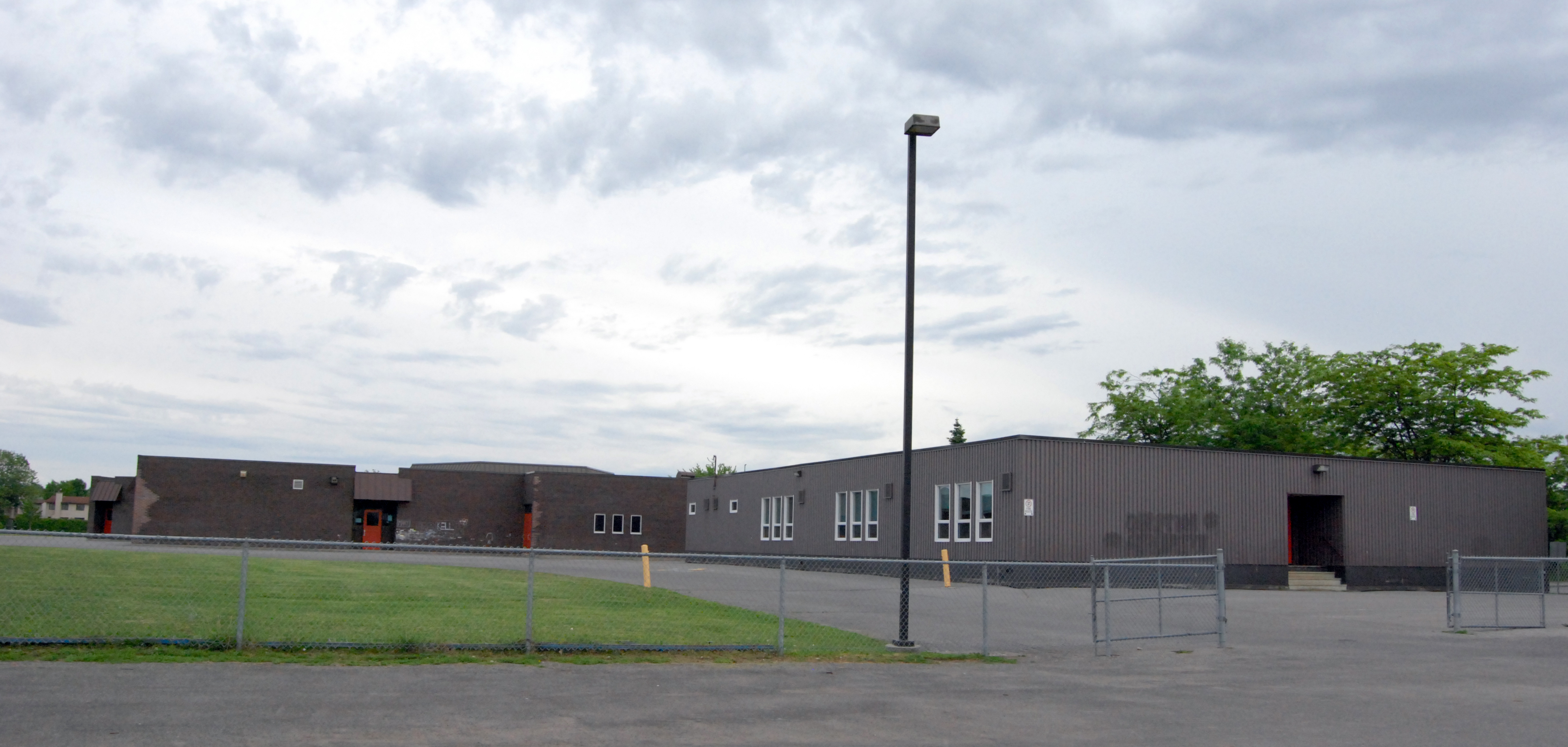 Our Lady of Wisdom north side showing portapak